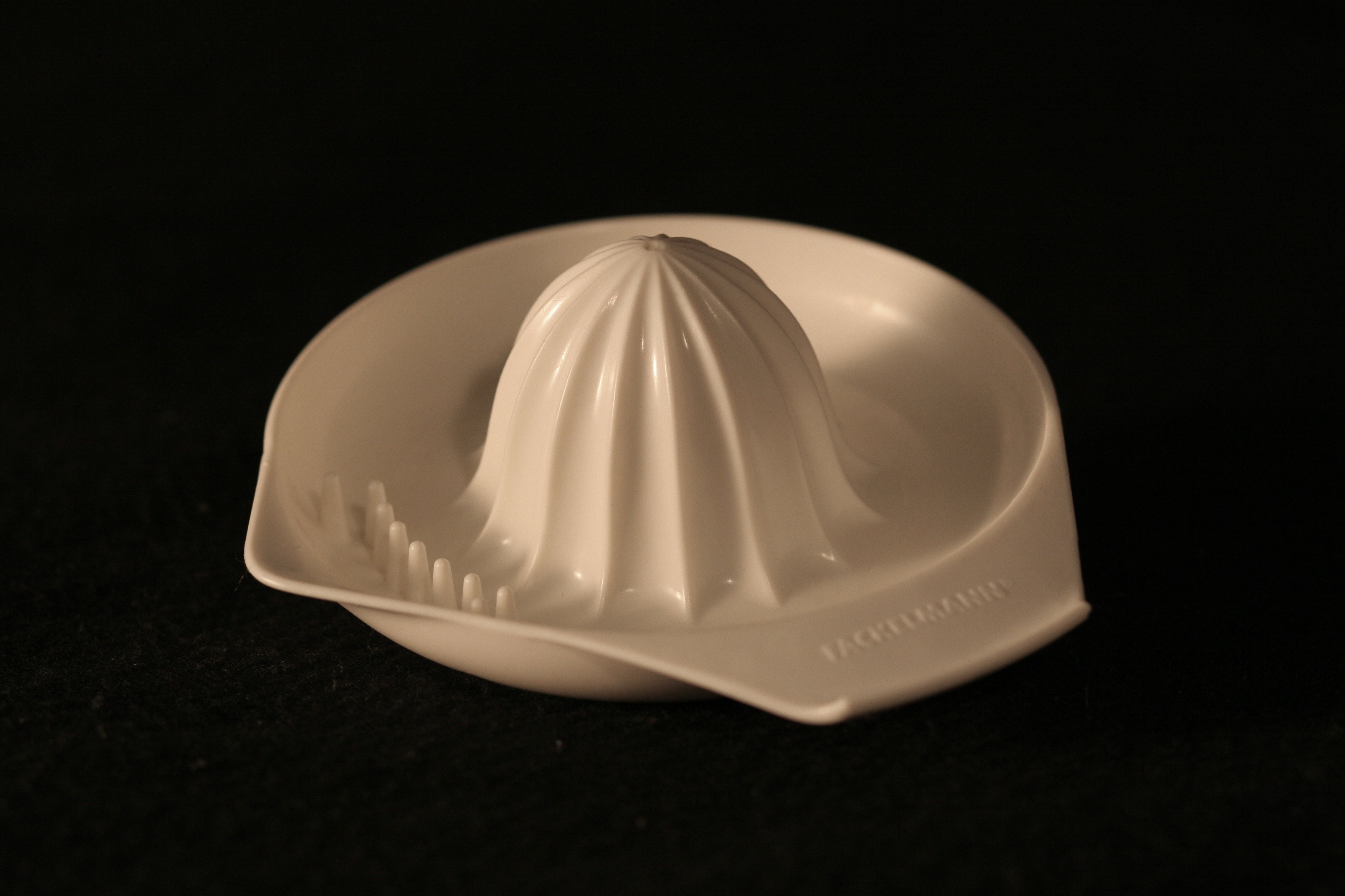 Lemon squeezer, made of plastics